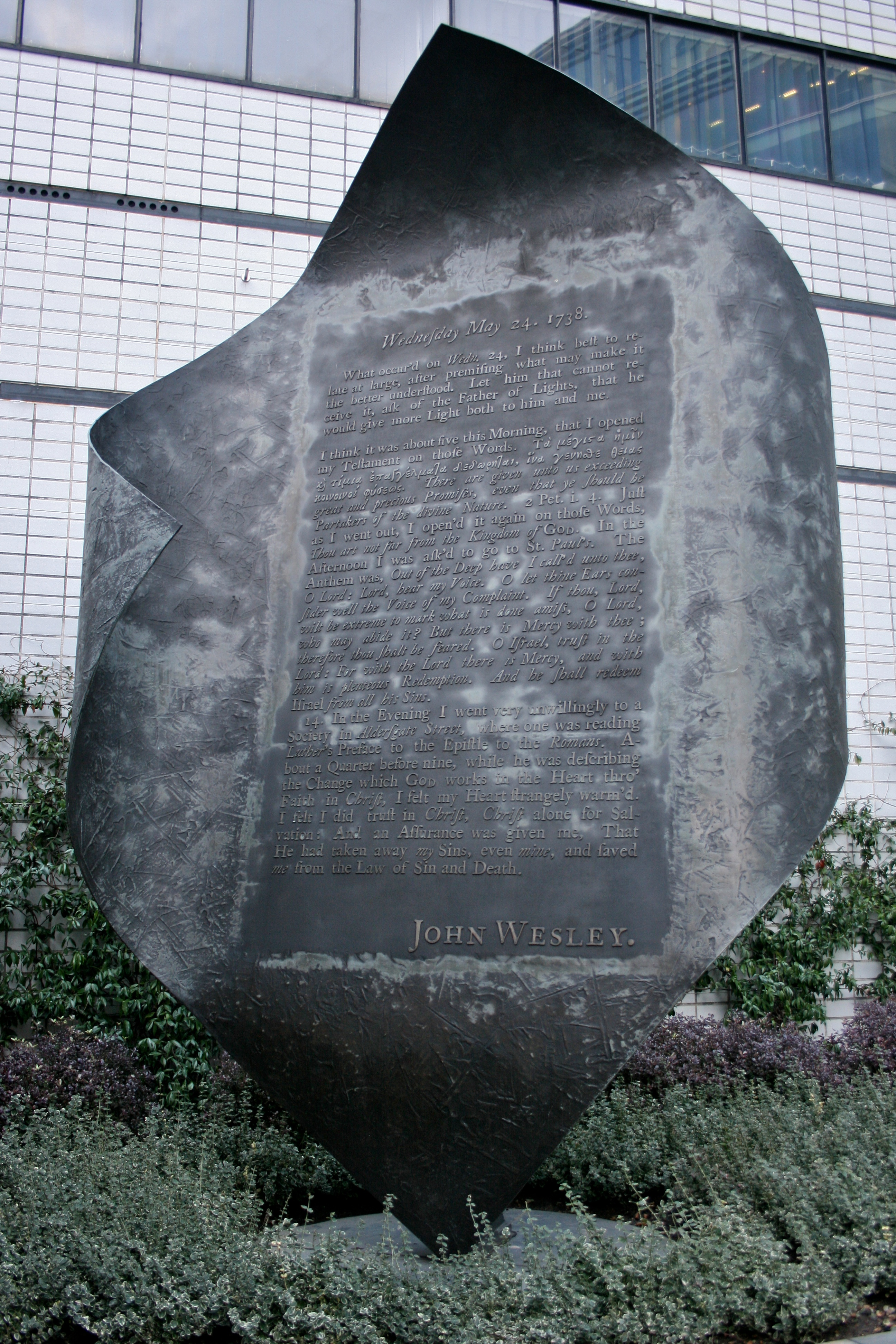 John Wesley's Conversation Place Memorial - The Aldersgate Flame. Outside the Museum of London.